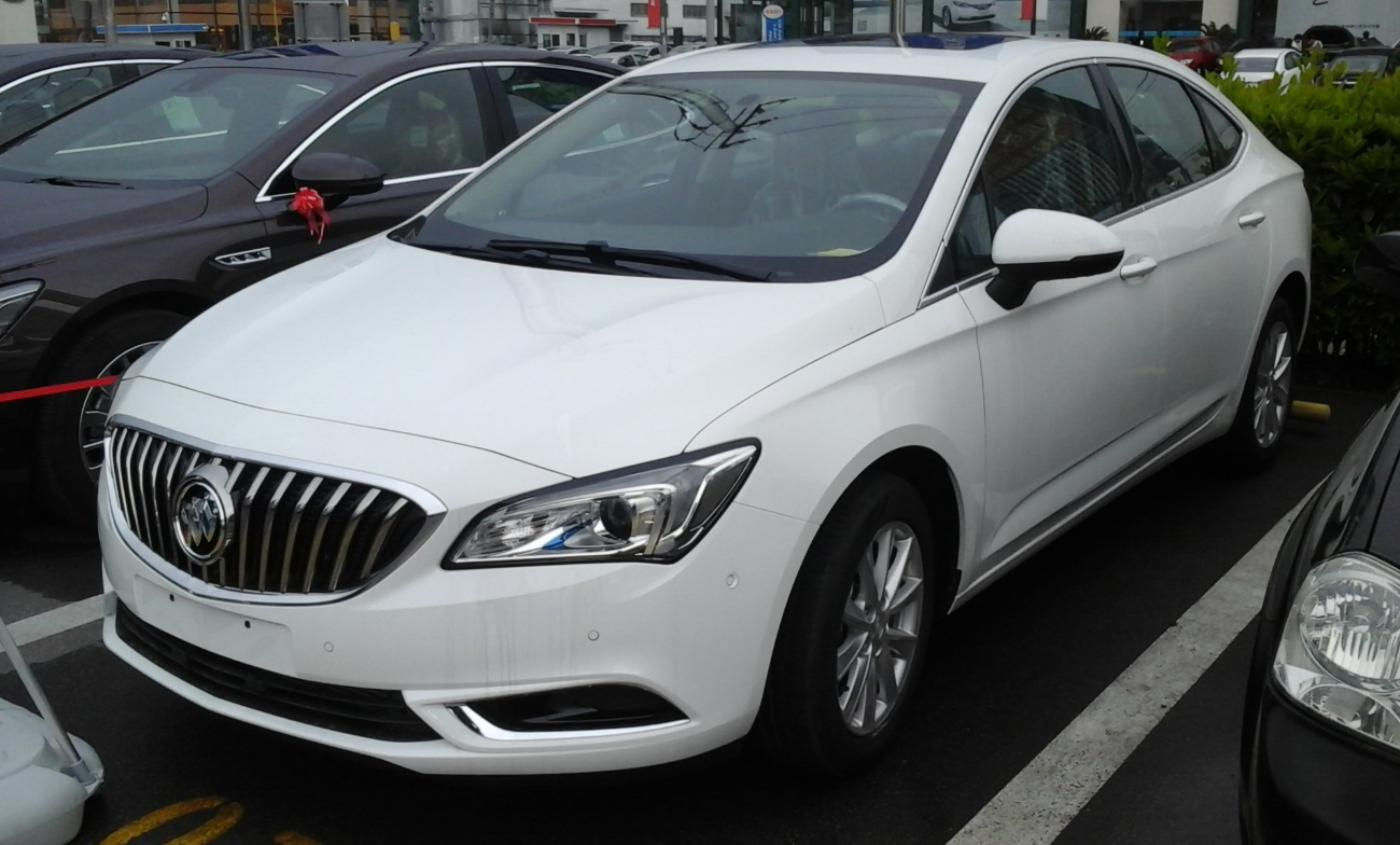 Buick Verano II sedan photographed in Shanghai, China.